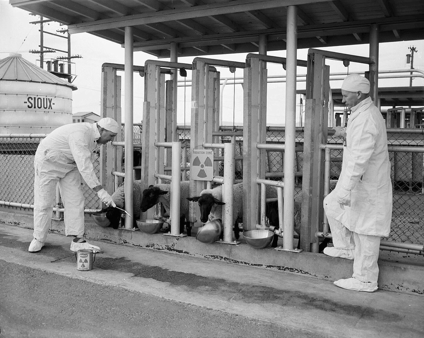 Hanford scientists feeding radioactive food to sheep.